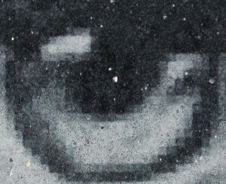 A macro photograph of a Kindle 3 E Ink screen. Original